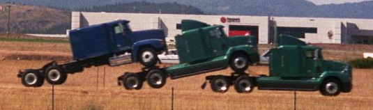 Tractor/truck/prime mover tracting/moving tractors/trucks/prime movers, Idaho, USA. The green trucks are FLD 112 models (112 in (2.8 m) BBC), the blue one a FLD 120.